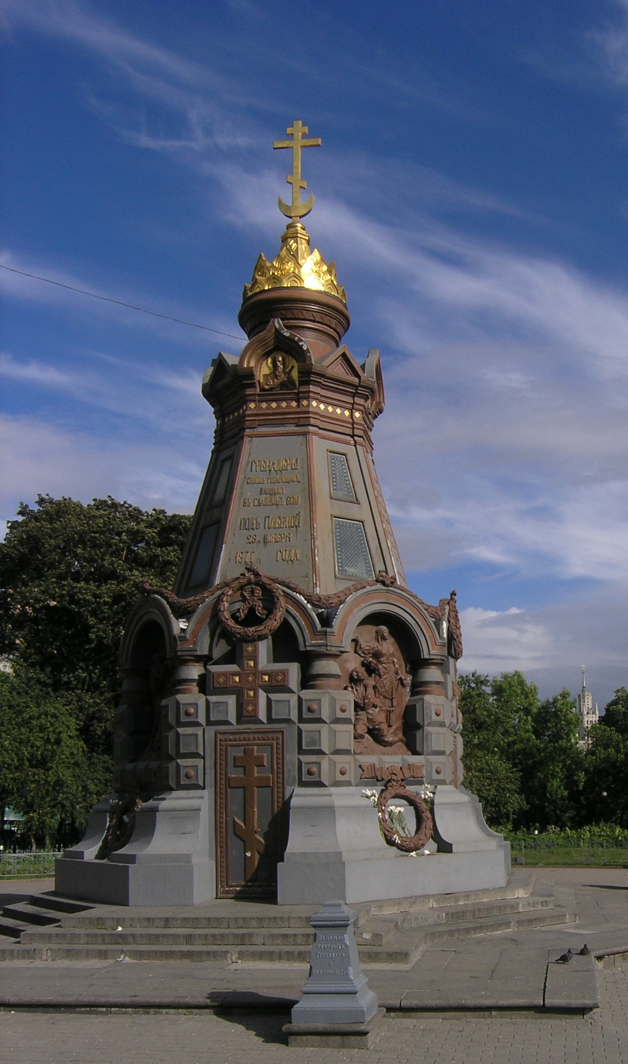 Monument for the Siege of Pleven 1877, erect in Moscow in 1888.